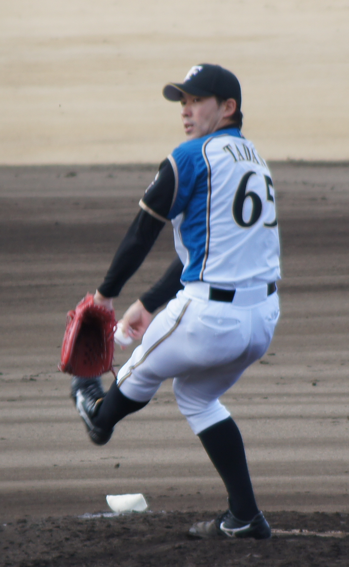 Kazuhito Tadano, pitcher of the Hokkaido Nippon-Ham Fighters, at Fighters Stadium.